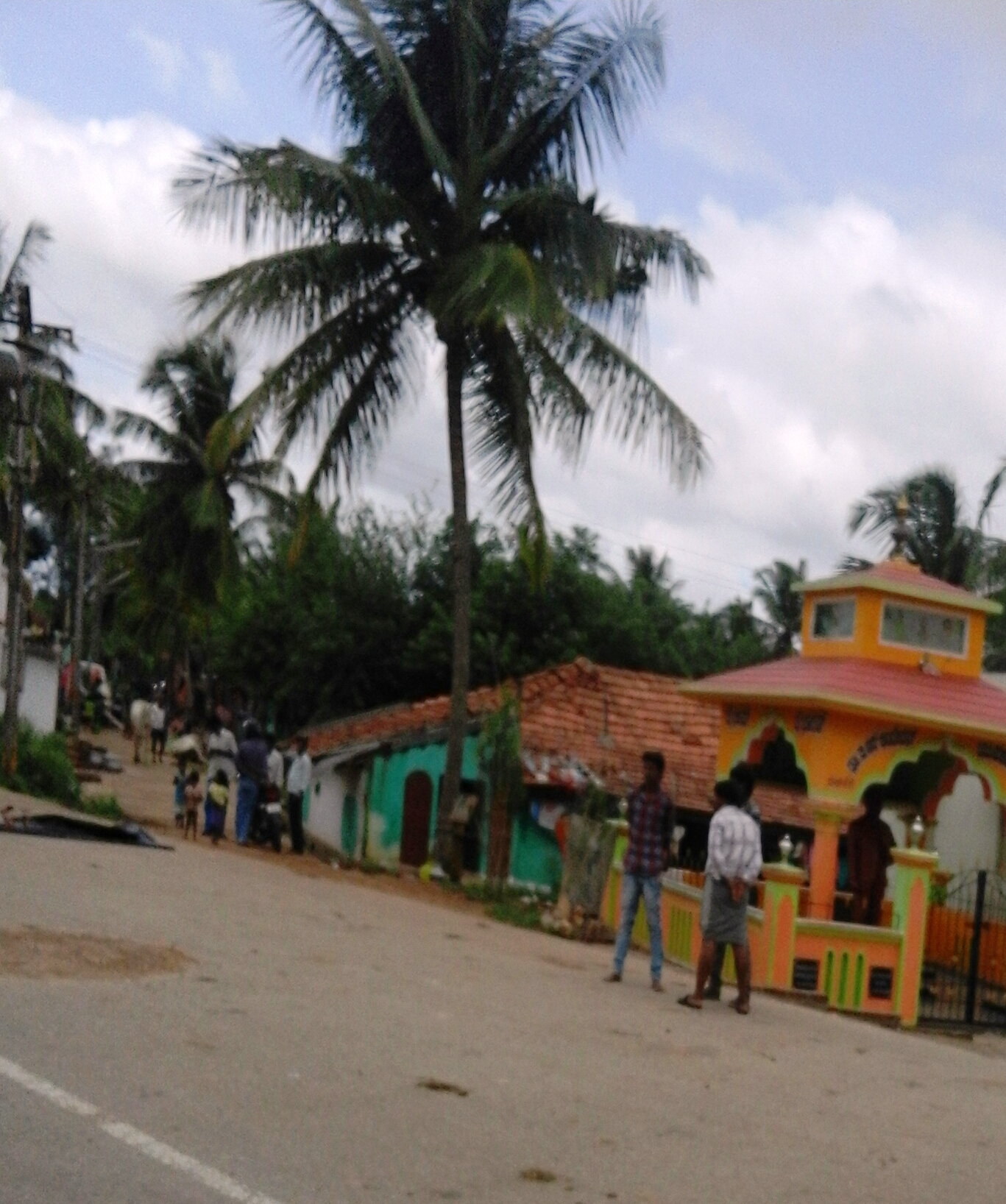 Mysore district, Karnataka state, India